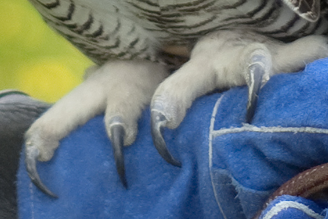 Great Horned Owl, Manitoba, Canada